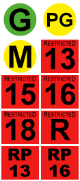 Official OFLC classifications. Used to illustrate the current rating system in New Zealand. Downloaded from All Rights Reserved OFLC 2007.